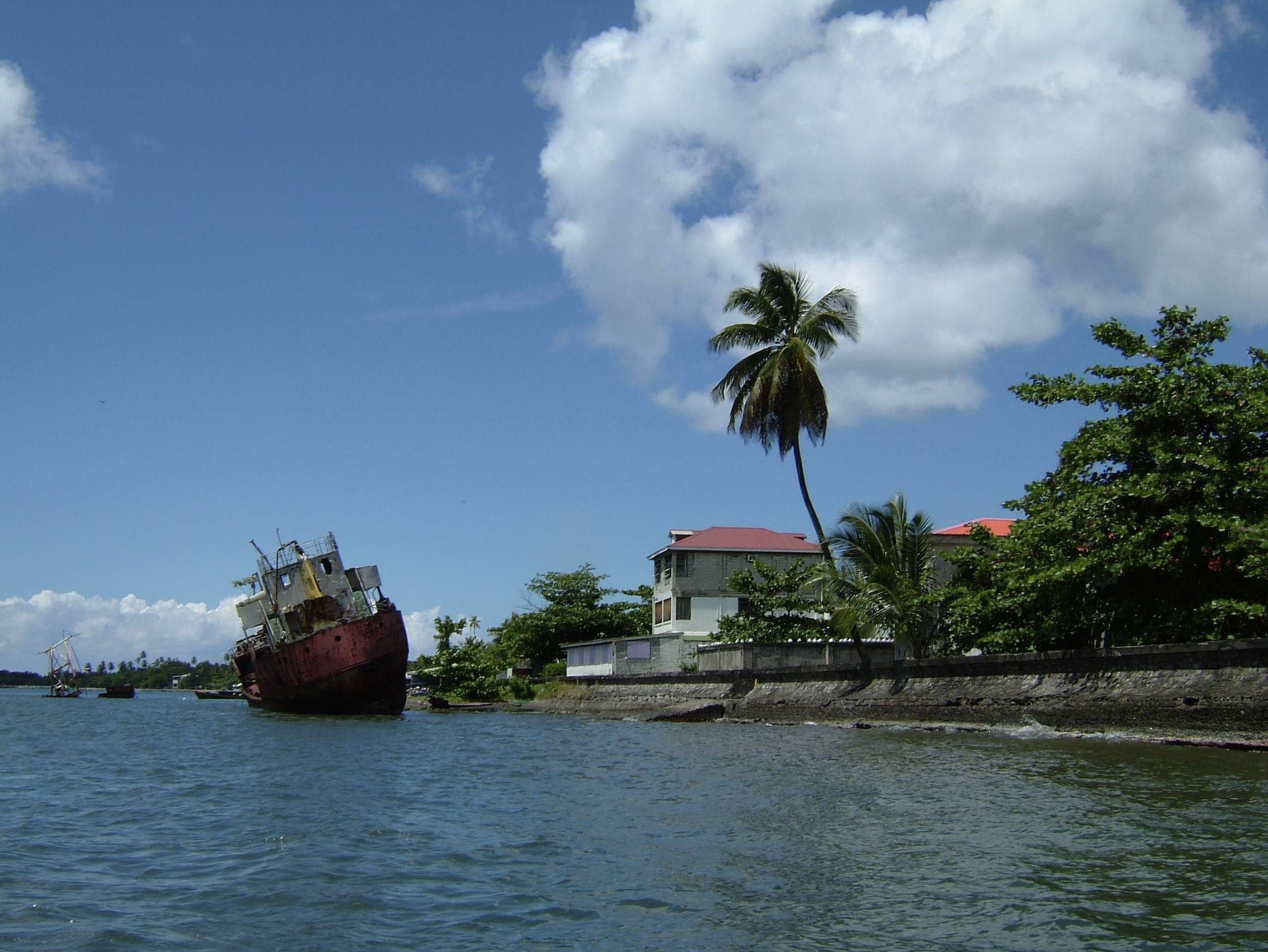 Portsmouth, Dominica